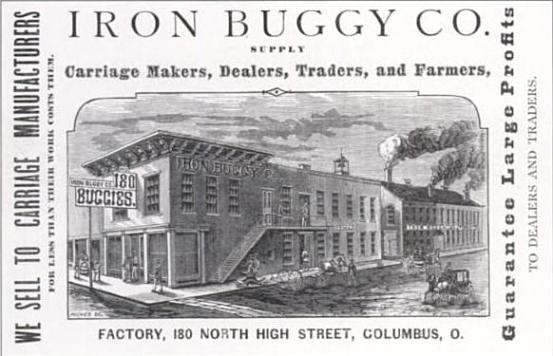 Approx. 1870 advertising Iron Buggy Company (Sister company of Firestone-Columbus )